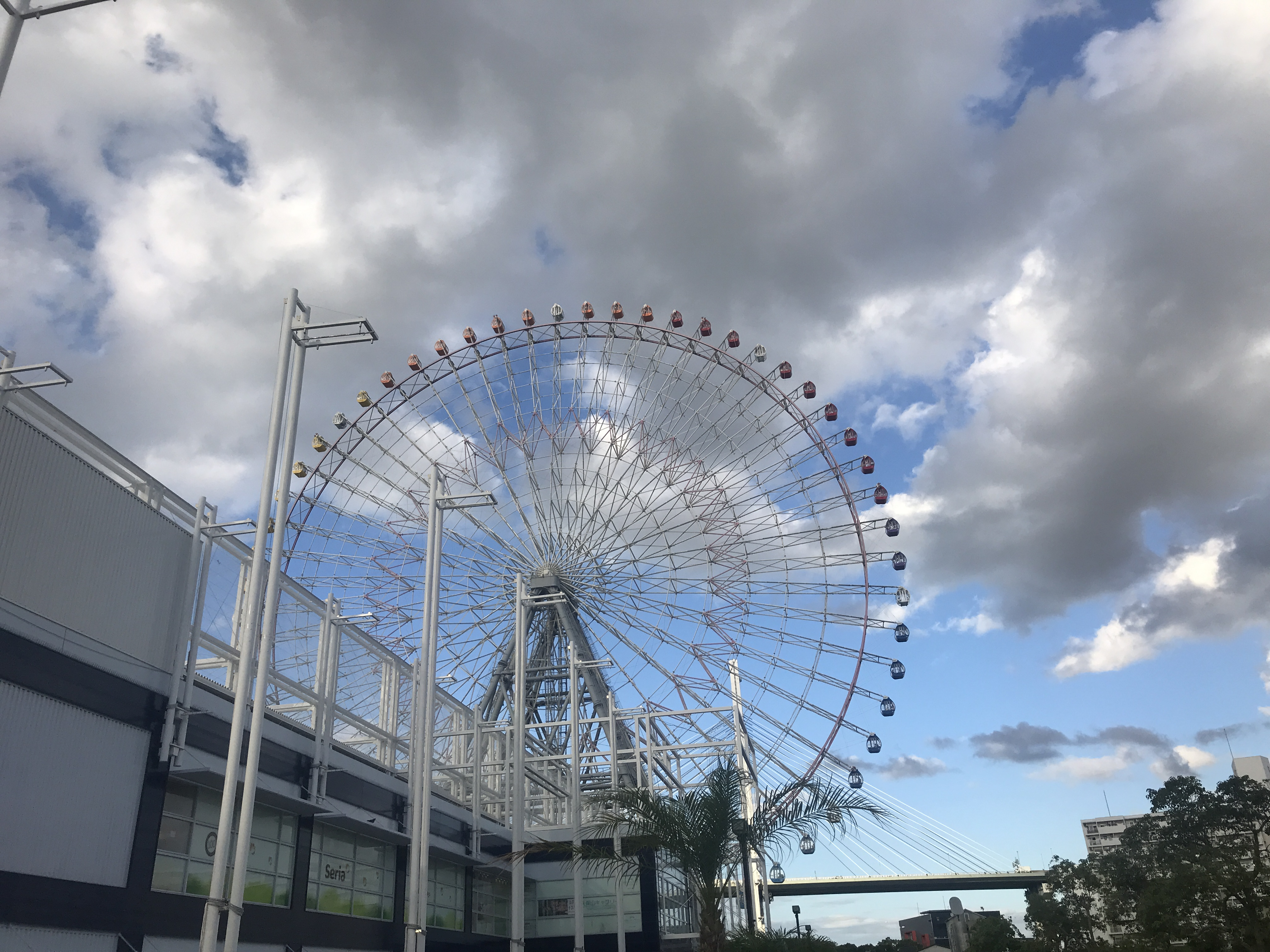 The photo has been taken in October 2018